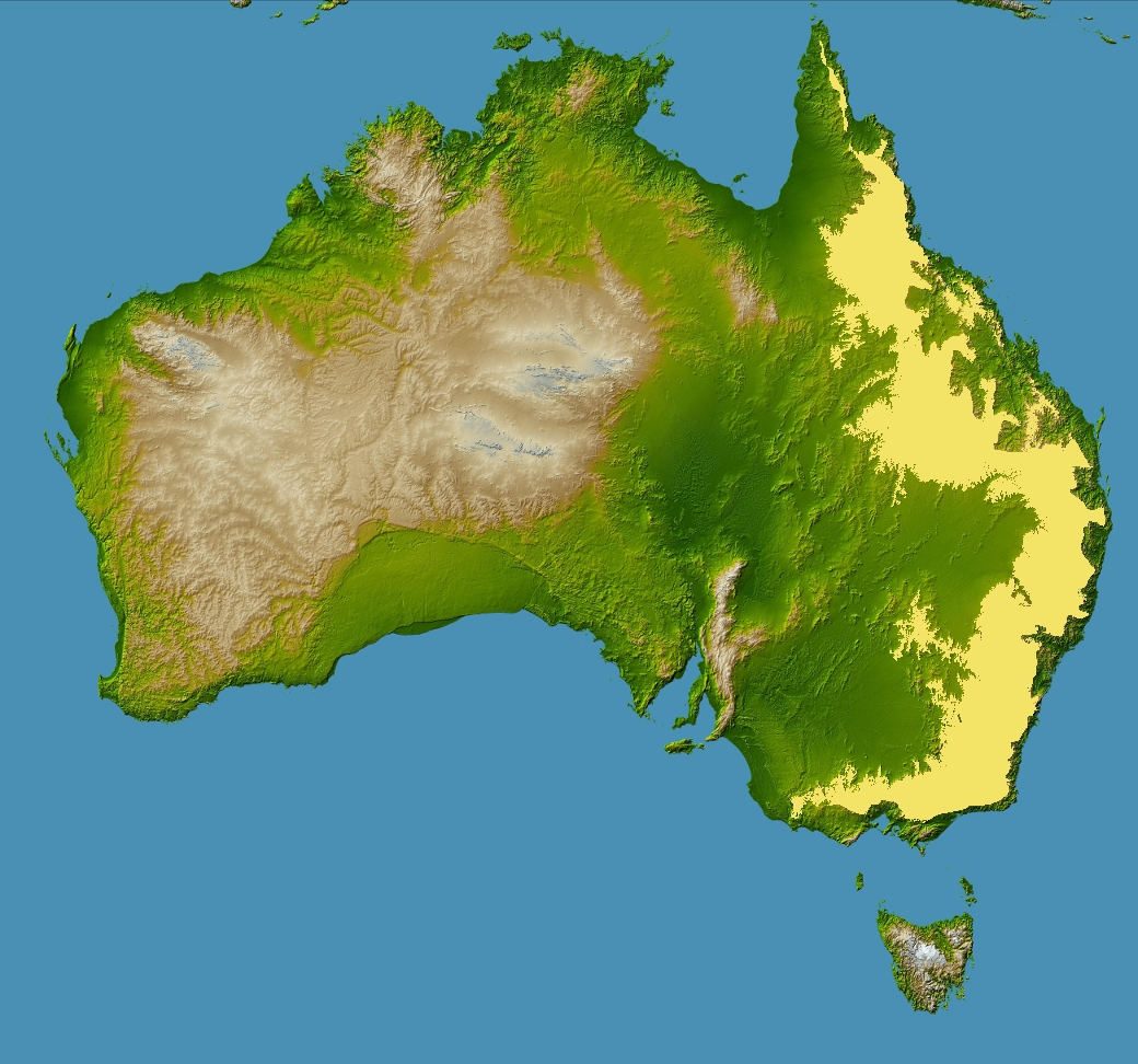 Approximate extent and location of Great Dividing Range